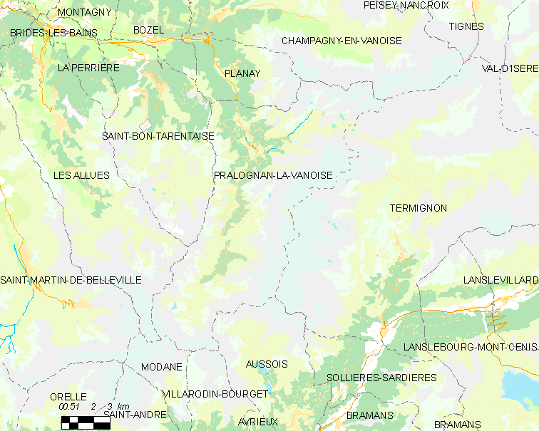 Map of French municipality